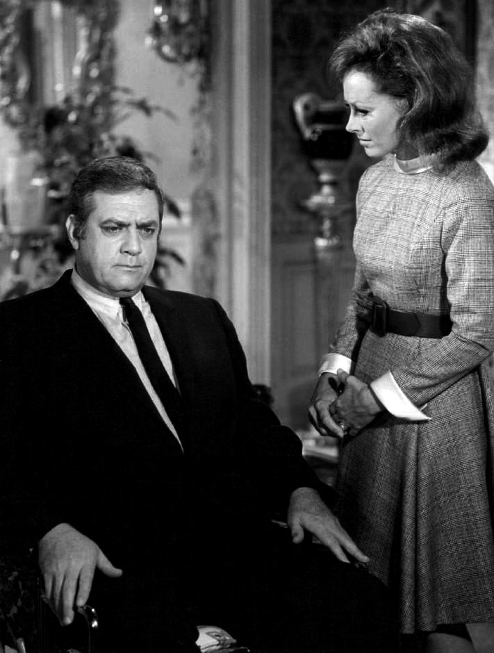 Publicity photo of Raymond Burr and Victoria Shaw from the Ironside television show, episode A Drug on the Market.